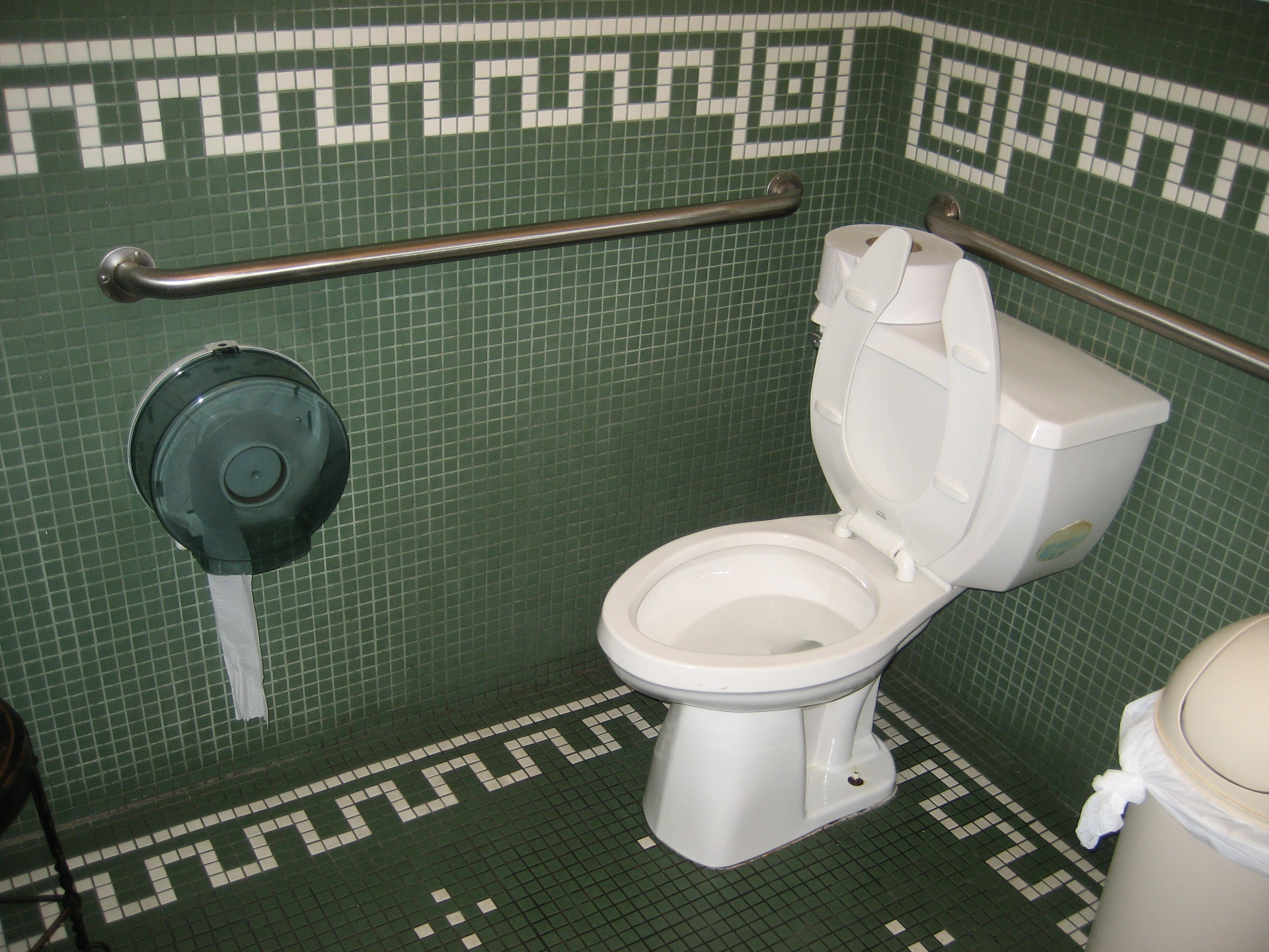 Toilet. Photographed in Lake City, Florida.